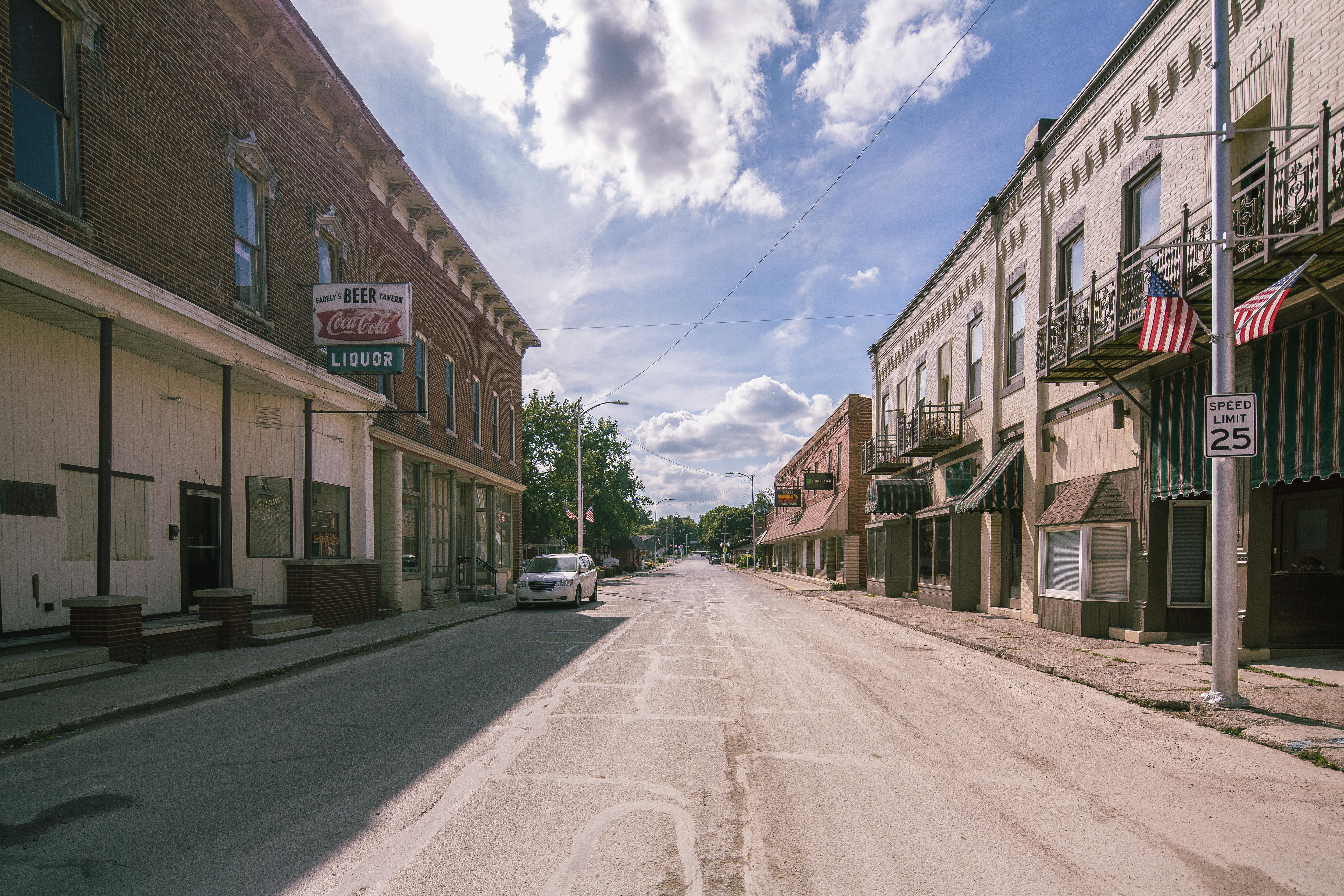 Photo from Small Town Indiana photo survey.